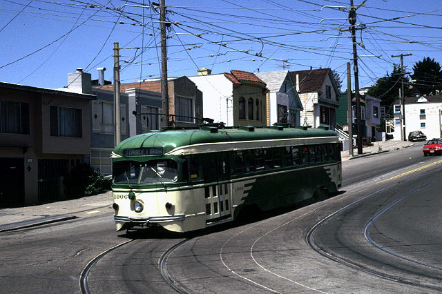 San Francisco PCC-type streetcar 1006 operating on a private excursion on the tracks of the M Ocean View line, in 1992. The car is on Orizaba, about to turn onto Broad.